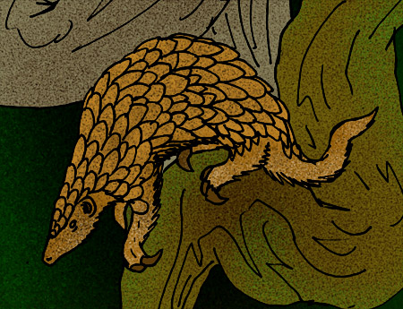 The Middle Eocene pangolin, Eomanis waldi, of Messel, Germany